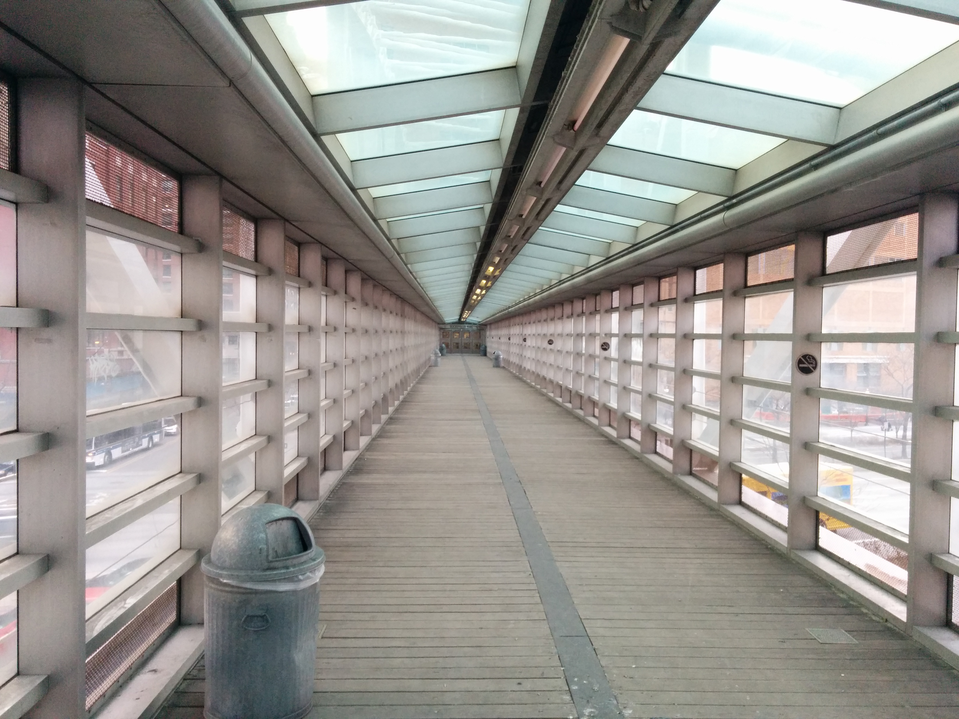 Interior of the Tribeca Bridge, a pedestrian bridge over West Street in New York City.